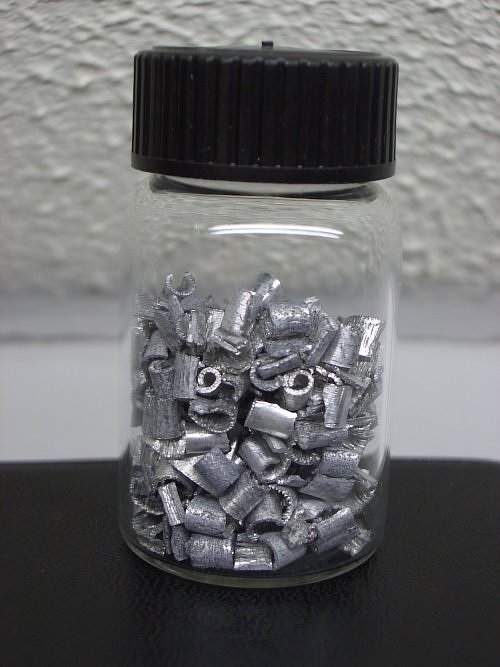 Magnesium turnings